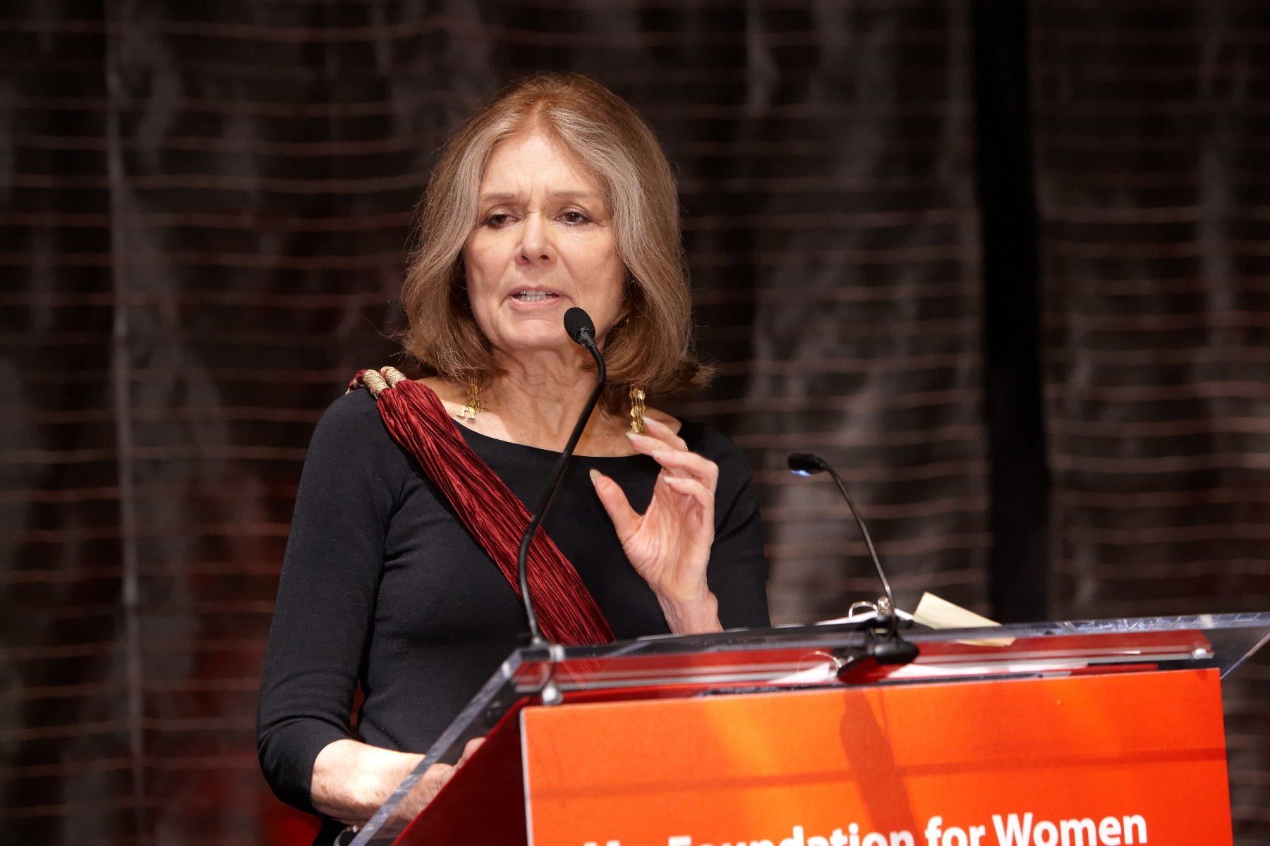 Gloria Steinem attending the Ms. Foundation for Women’s 23rd annual Gloria Awards, named for her, on May 19, 2011. Learn more and sign up for email alerts from the Ms. Foundation.